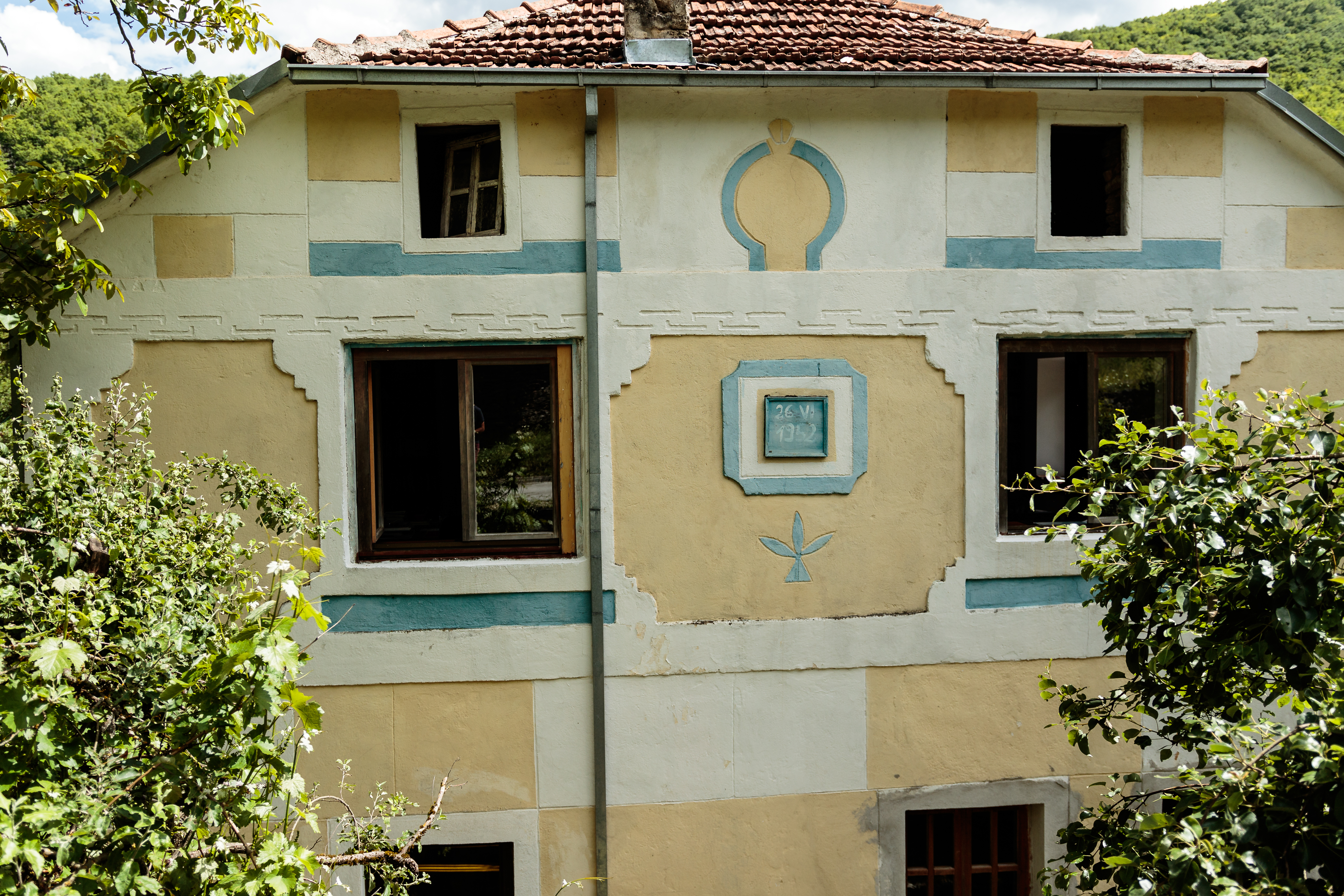 Library in the village Babino